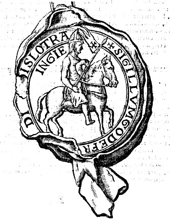 Godfrey III of Leuven